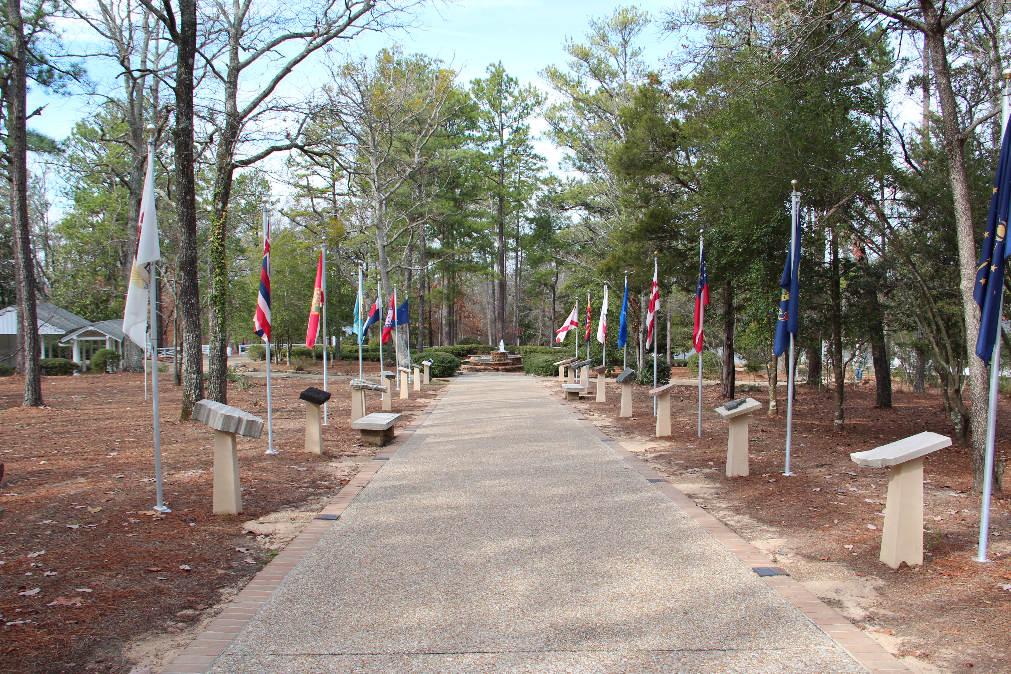 Little White House Flags walkway